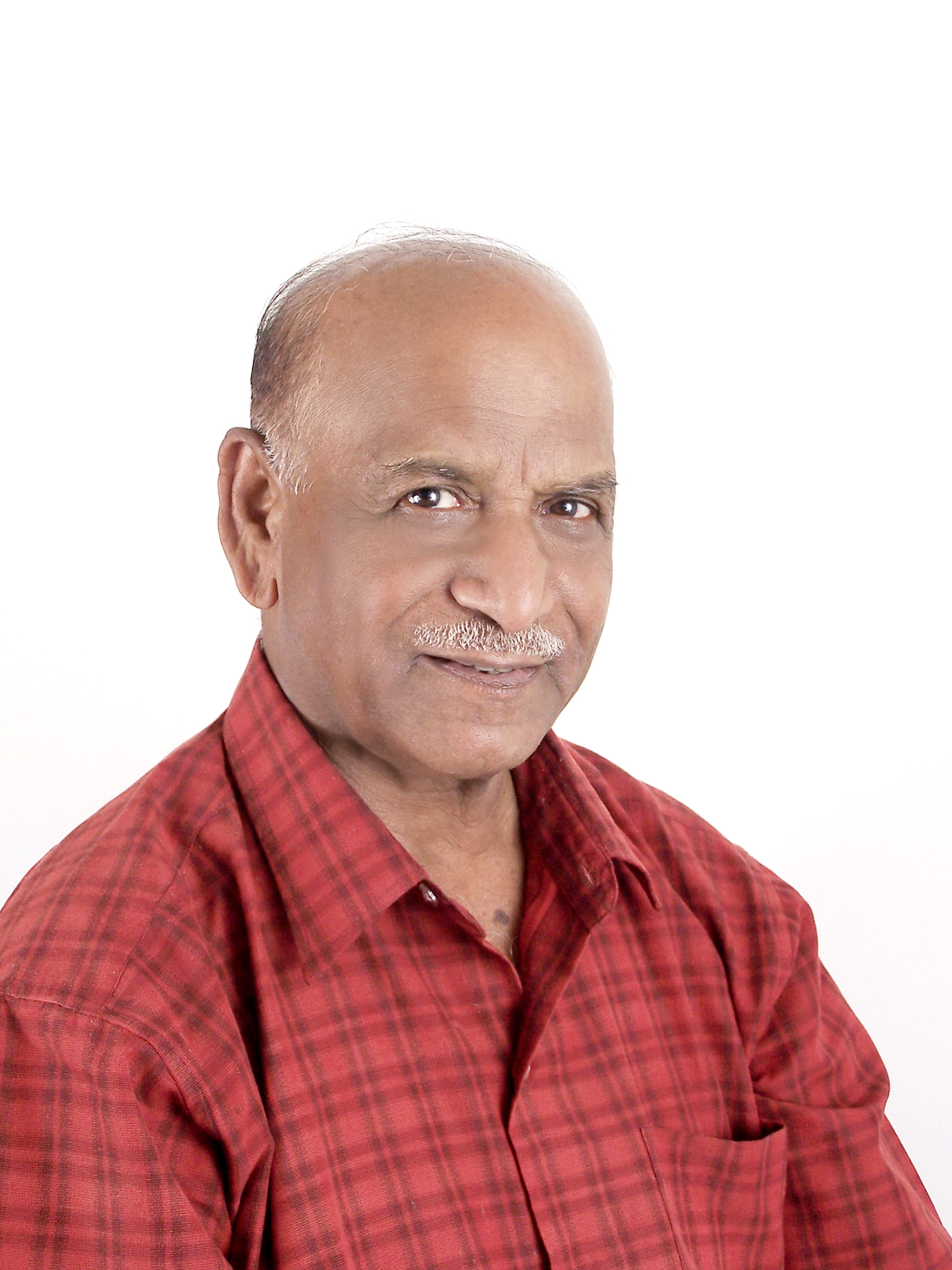 இவர் நாடறிந்த தமிழறிஞர், சிந்துவெளி எழுத்தாராச்சி, மொழியியல், சொற்பிறப்பியல், தொன்மை நாகரிக ஆராச்சி, இலக்கியம், இலக்கணம், மொழிபெயர்ப்பு,கல்வெட்டு, பாறை ஒவிய எழுத்துகள் போன்ற பல துறைகளிலும் சிறந்த ஆய்வாளர் எனப் பெயர் பெற்றவர் மற்றும் மேற்கன்ட துறைகளில் அறிய ஆராய்சி நூல்களை வெளியிட்டவர்.